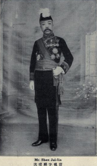 Shen Ruilin (Shen Jui-lin), Yanyi (1874 - 1945)